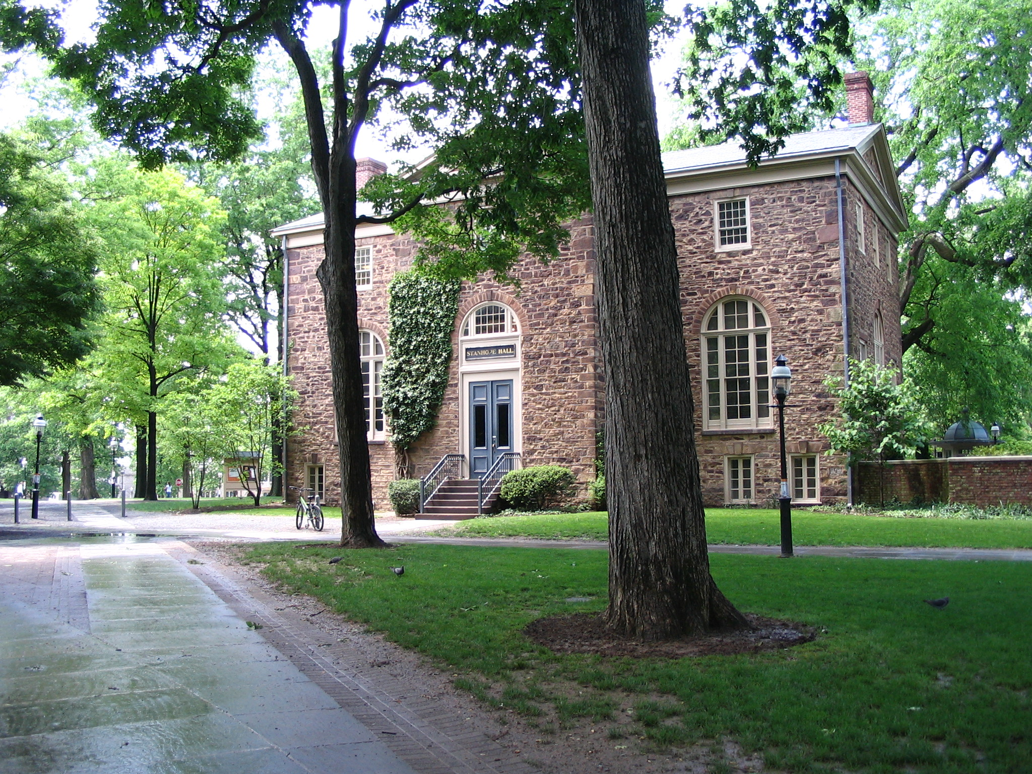 Stanhope Hall, Princeton University, Princeton, NJ